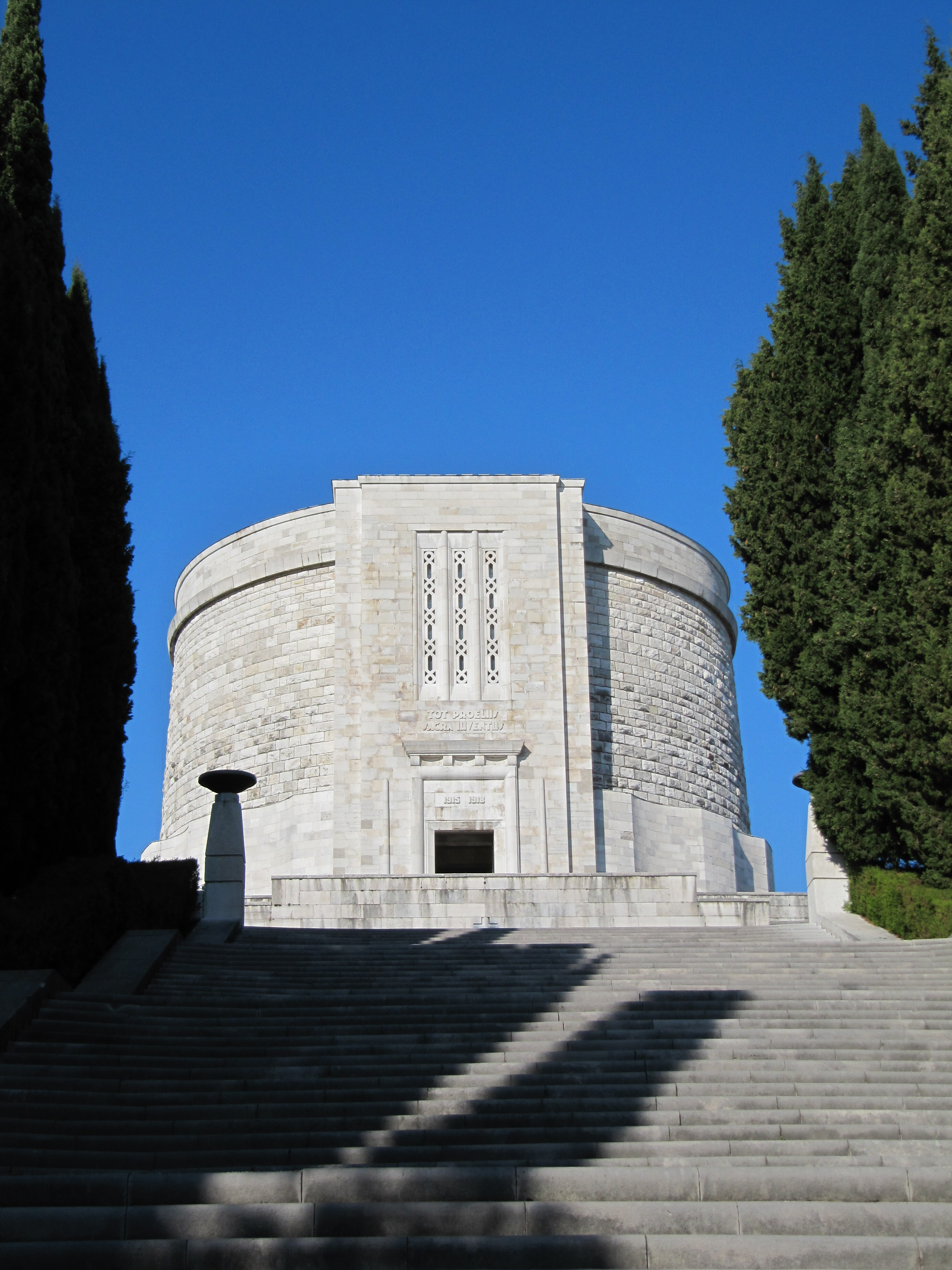 Military memorial of Oslavia, here are buried over 57,000 soldiers of first world war. Gorizia, Italy.